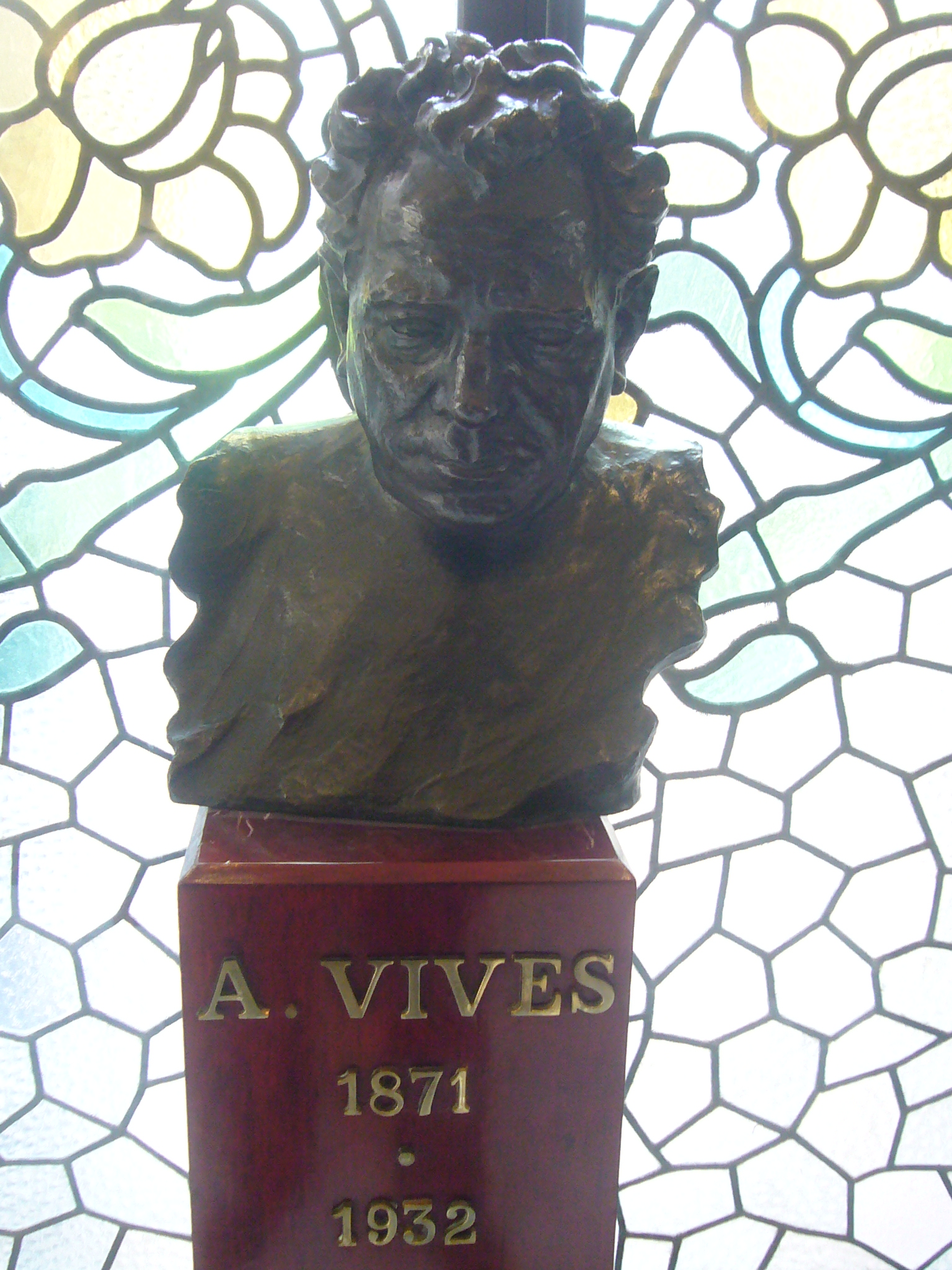 Amadeu Vives bust in Palau de la Música Catalana